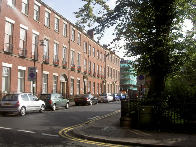 Winkley Square, north side. The industrial revolution in Preston led to a large increase in population in the early 19th century. This marvellous Georgian square was the response of the wealthier citizens to their own need for a new residential area. (Part of a circular walk around Preston - continues at 557117.)